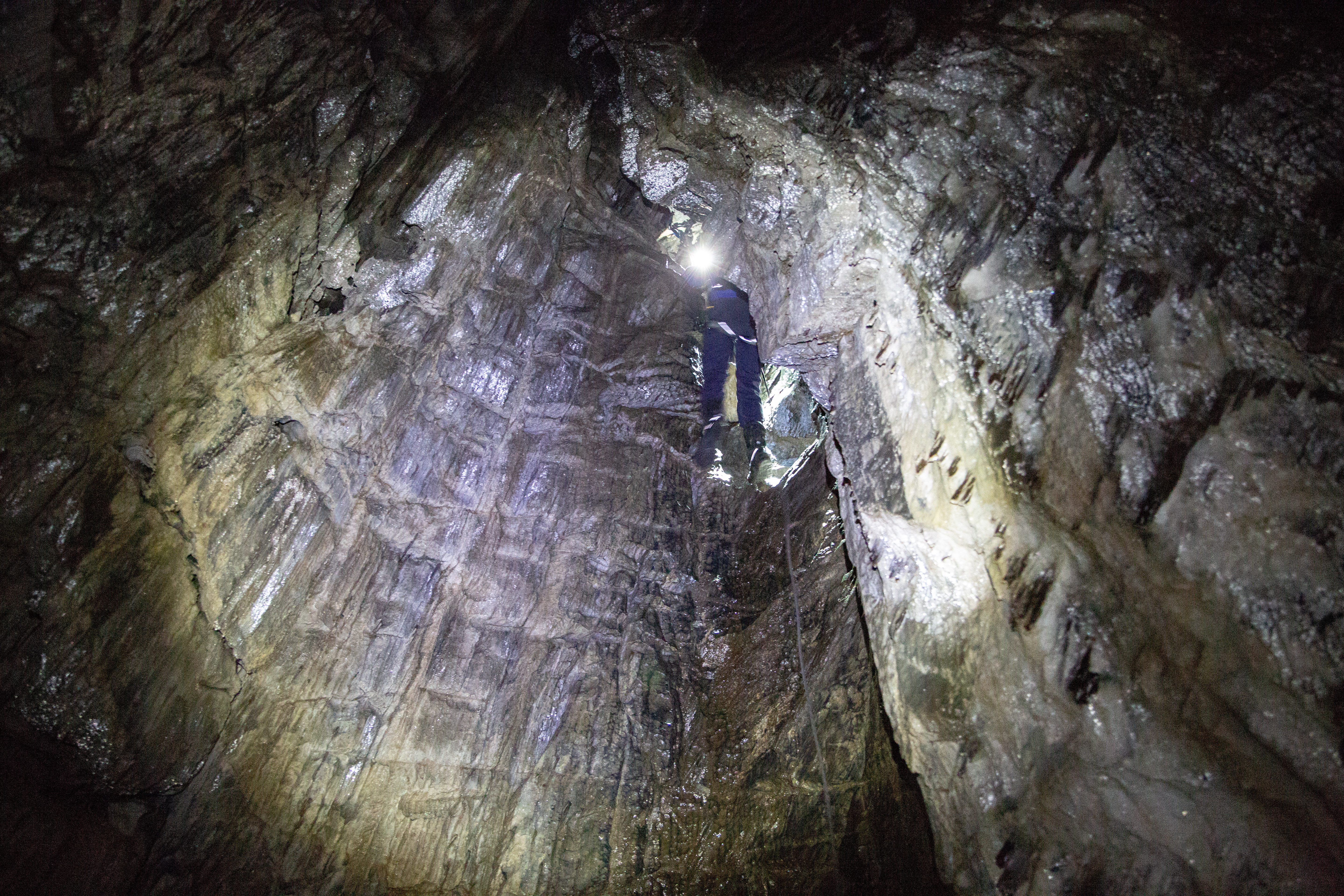 A caver rappels down a 6 meter long rappel inside lower Ramsåsgrotte